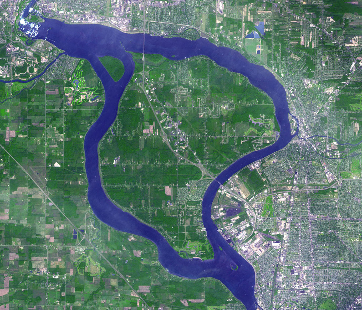 This is a satellite image of the Niagara Falls region, acquired on September 8, 2001 by the Advanced Spaceborne Thermal Emission and Reflection Radiometer (ASTER) on NASA’s Terra satellite. I rotated so north is directly up, and cropped it so it focuses on Grand Island. Grand Island is at the center. Niagara Falls is at the extreme top and left. Canada is to the south and west; Erie County (NY) is east; Niagara County (NY) is north. Image courtesy NASA/GSFC/MITI/ERSDAC/JAROS, and U.S./Japan ASTER Science Team.